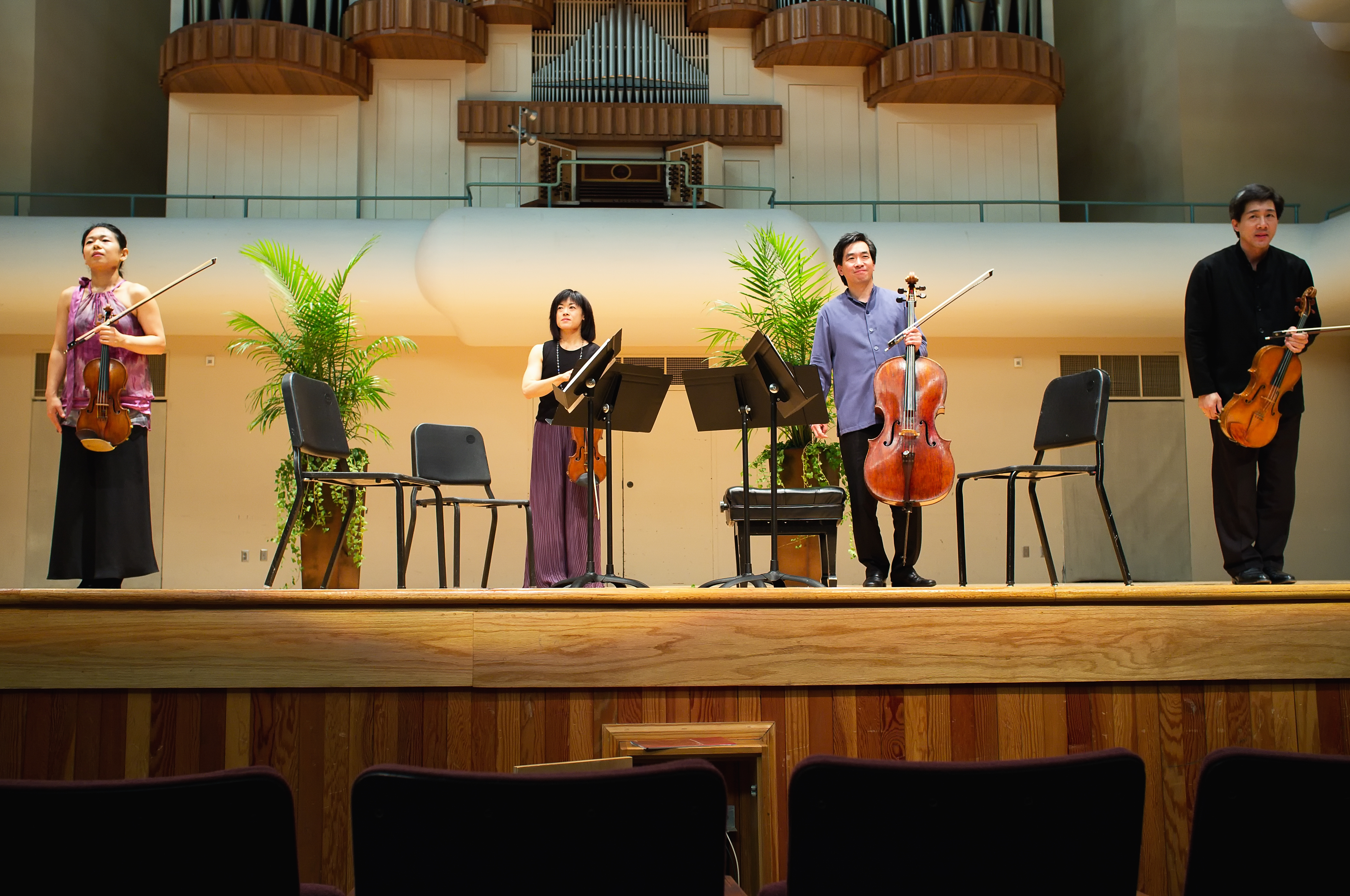 Ying Quartet at the Moody Music Building University of Alabama, Tuscaloosa, Alabama Sunday, October 2, 2011 Ayano Ninomiya, violin Janet Ying, violin David Ying, cello Phillip Ying, viola